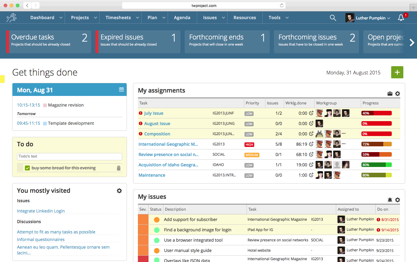 Twproject Dashboard